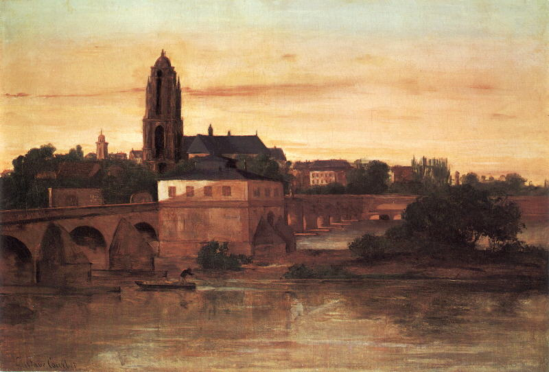 Depicted place: Alte Brücke, Frankfurt am Main